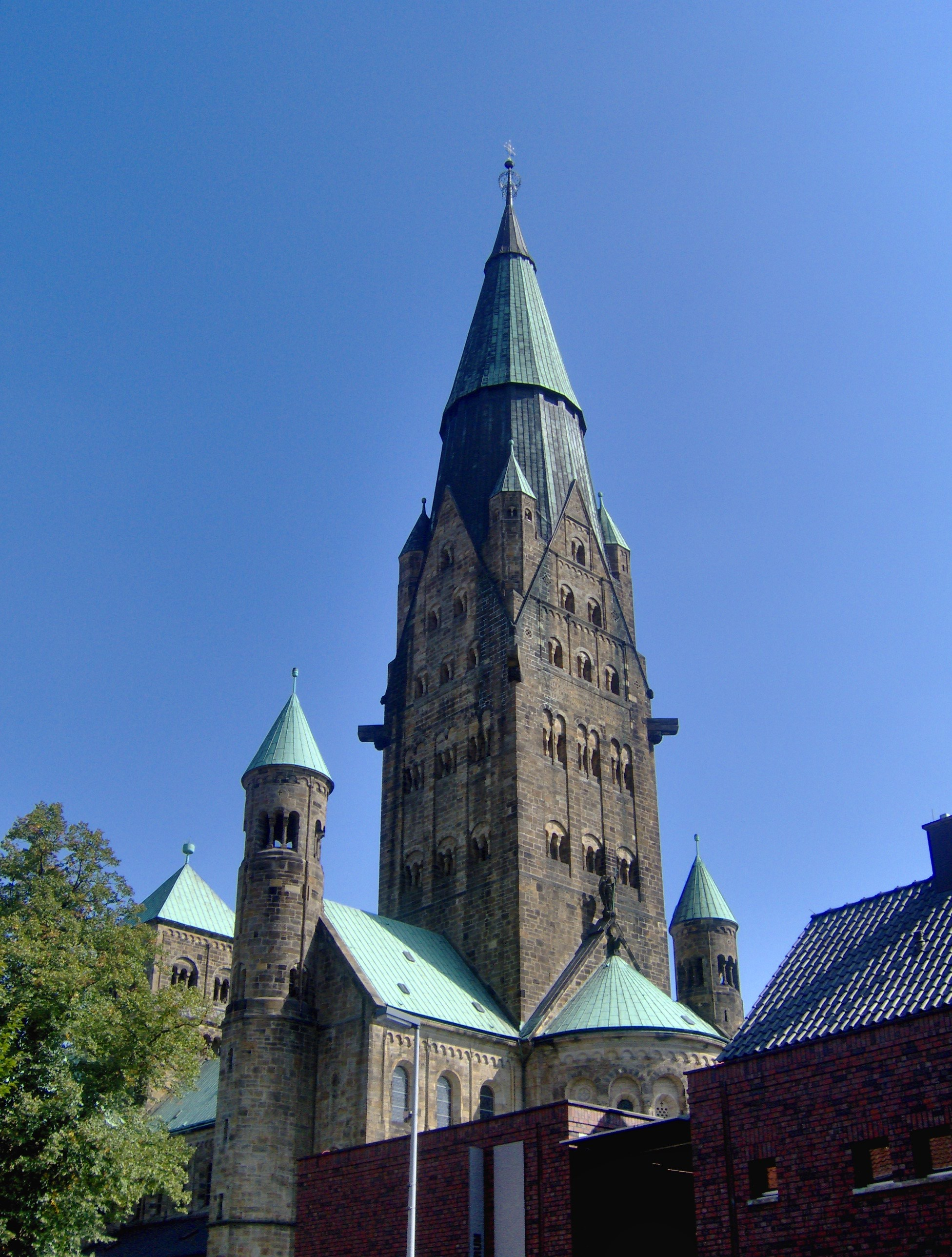 The spire of the basilica Sankt Antonius in Rheine in North Rhine-Westphalia, Germany